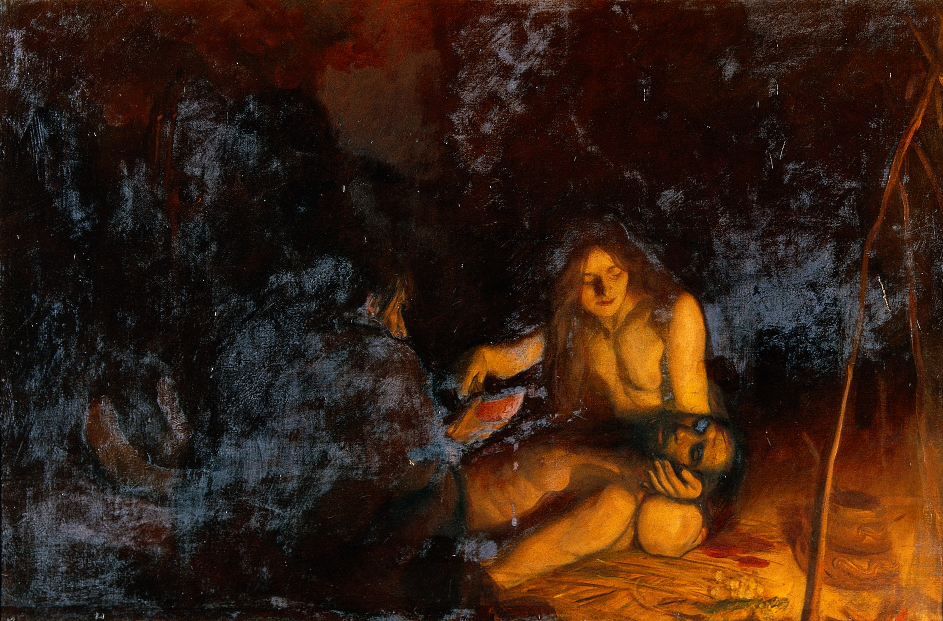 The healing art in pre-historic times. Iconographic Collections Keywords: Ernest Board